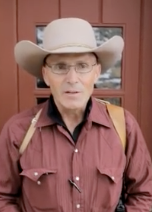 LaVoy Finicum in Creative Commons YouTube video posted by Blaine Cooper, January 22, 2016, four days before his shooting.